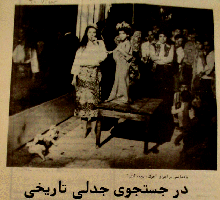 Anna Koos and Galus Halasz in Pig! Child! Fire!, Shiraz Festival , 1977